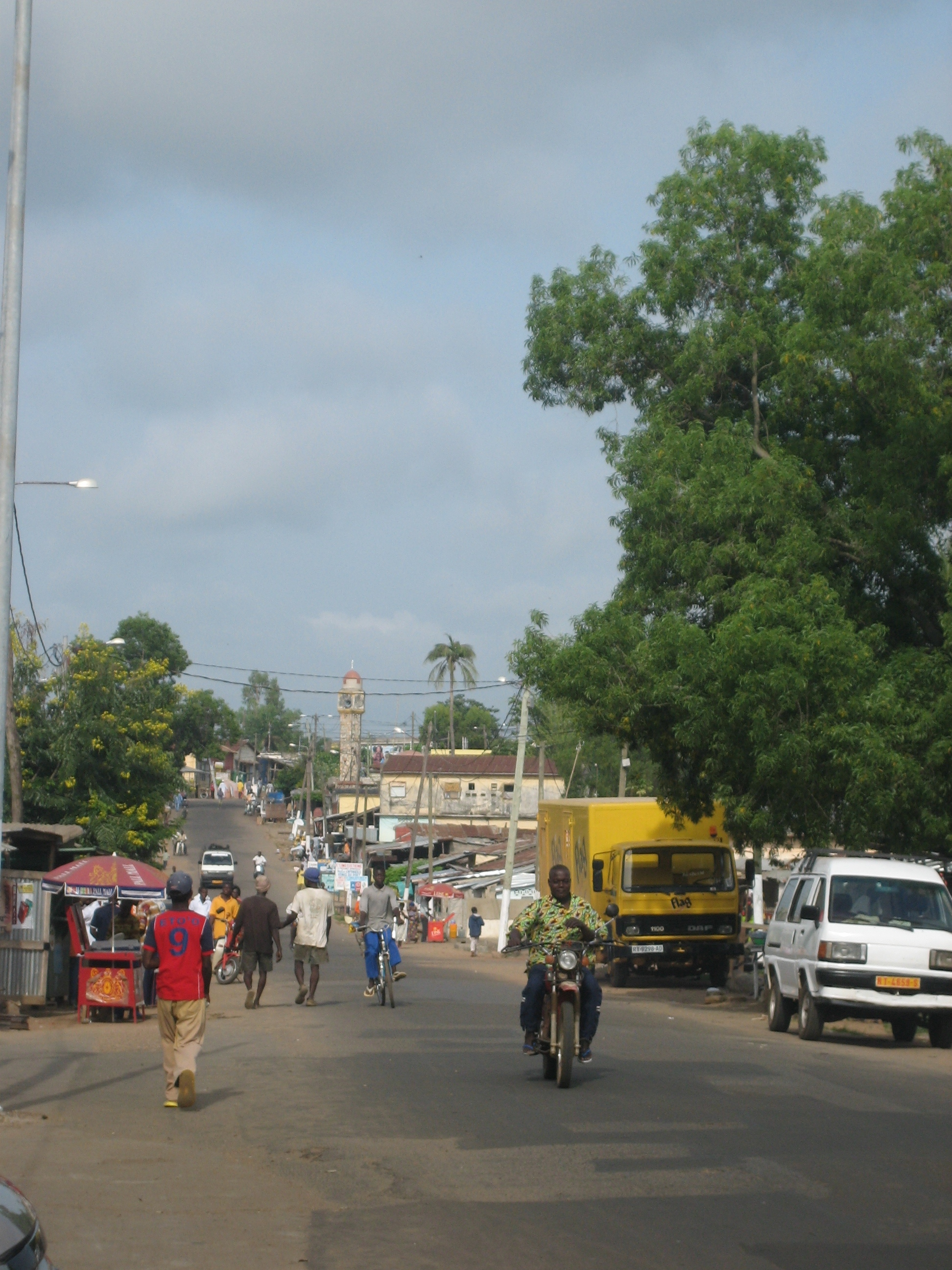 Street in the city of Kara, Togo